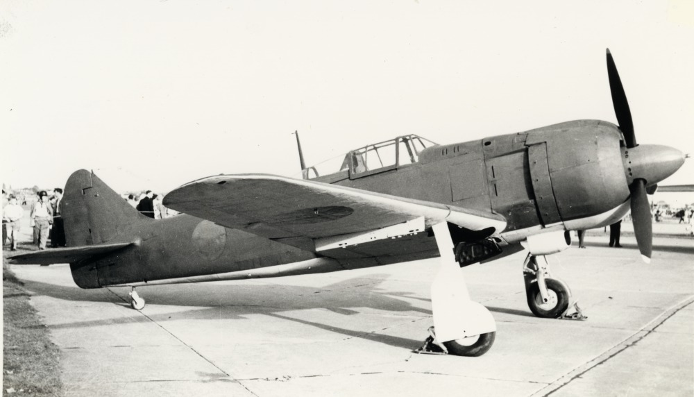 Kawasaki Ki-100-II Hien 'Tony'. This plane is located at the Royal Air Force Museum Gaydon, Warwickshire.